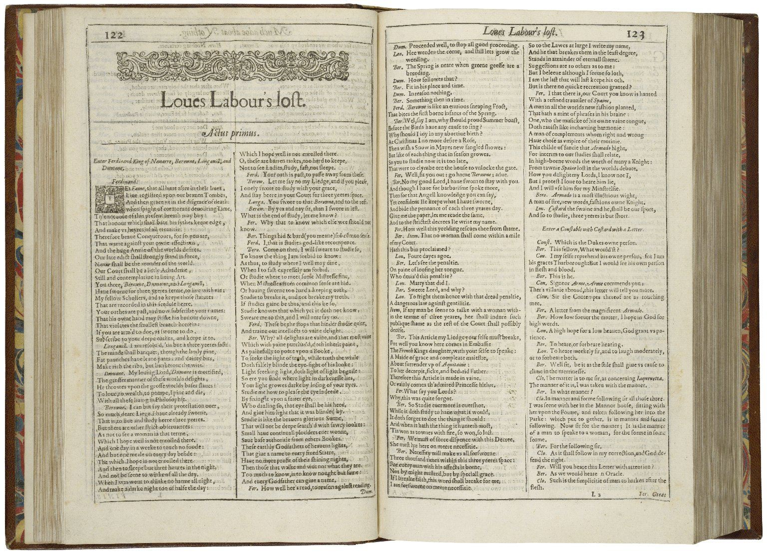 The first page of Shakespeare's Love's Labours Lost, printed in the First Folio of 1623